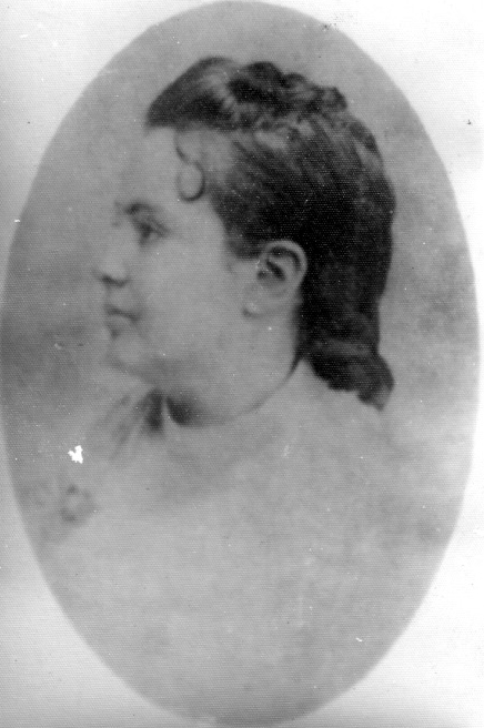 Ana Emilia Ribeiro da Cunha, wife of Euclides da Cunha